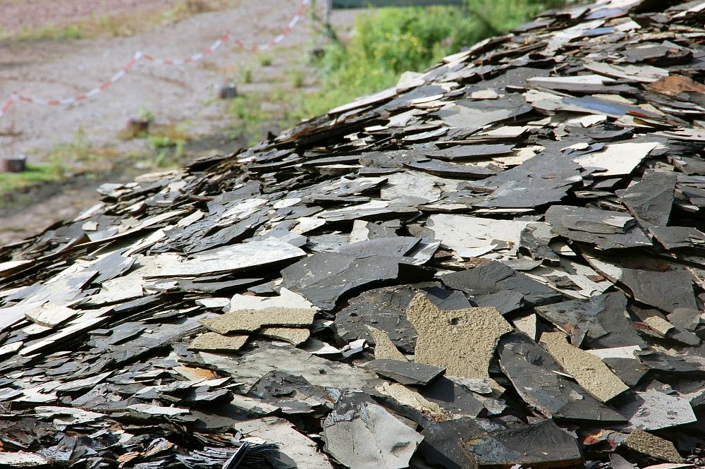 Grube Messel, near Darmstadt, Germany